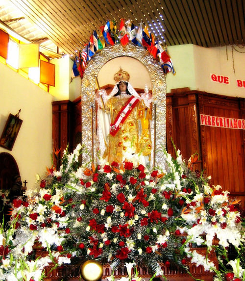 The Virgin of Mercedes, patron saint of Carhuaz, whose feast is celebrated from September 14 to October 2, being the main days 23 and September 24, party with many customs and traditions, which consume large amounts of liquor , which is why Antonio Raimondi, gave him the nickname "Carhuaz Drunk."